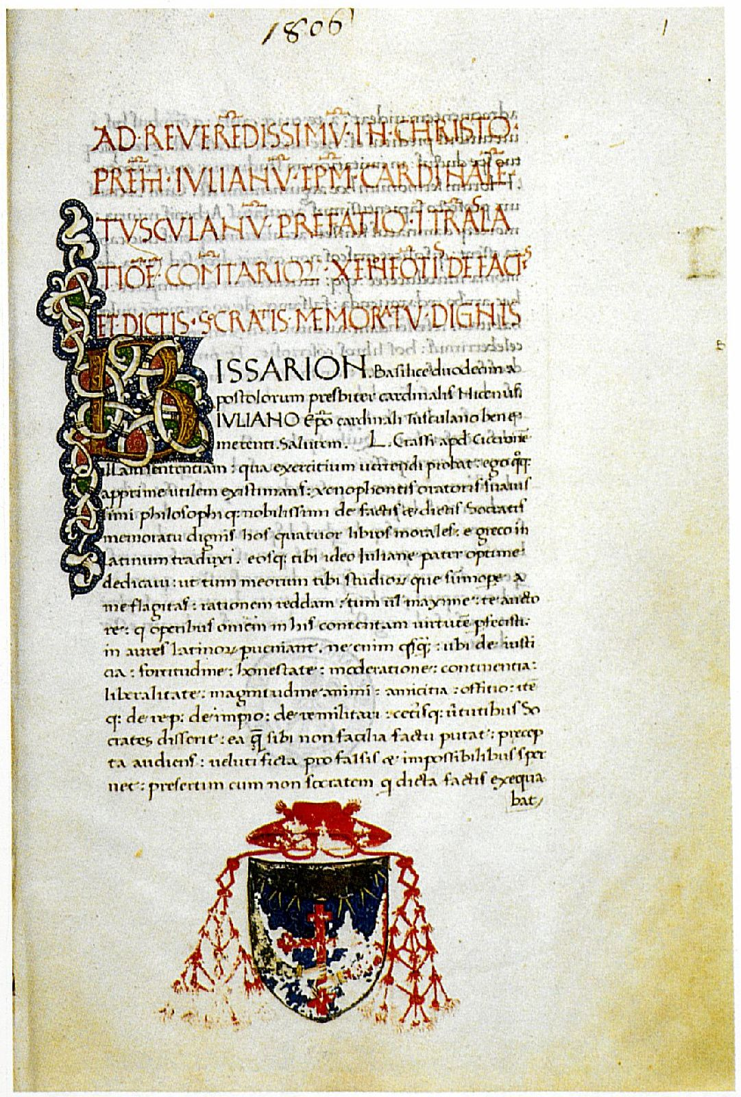 Cardinal Bessarion’s dedication letter to Cardinal Julian Cesarini the Elder in the presentation copy of his Latin translation of Xenophon’s Memorabilia. Rome, Biblioteca Apostolica Vaticana, Vat. Lat. 1806, fol. 1r.